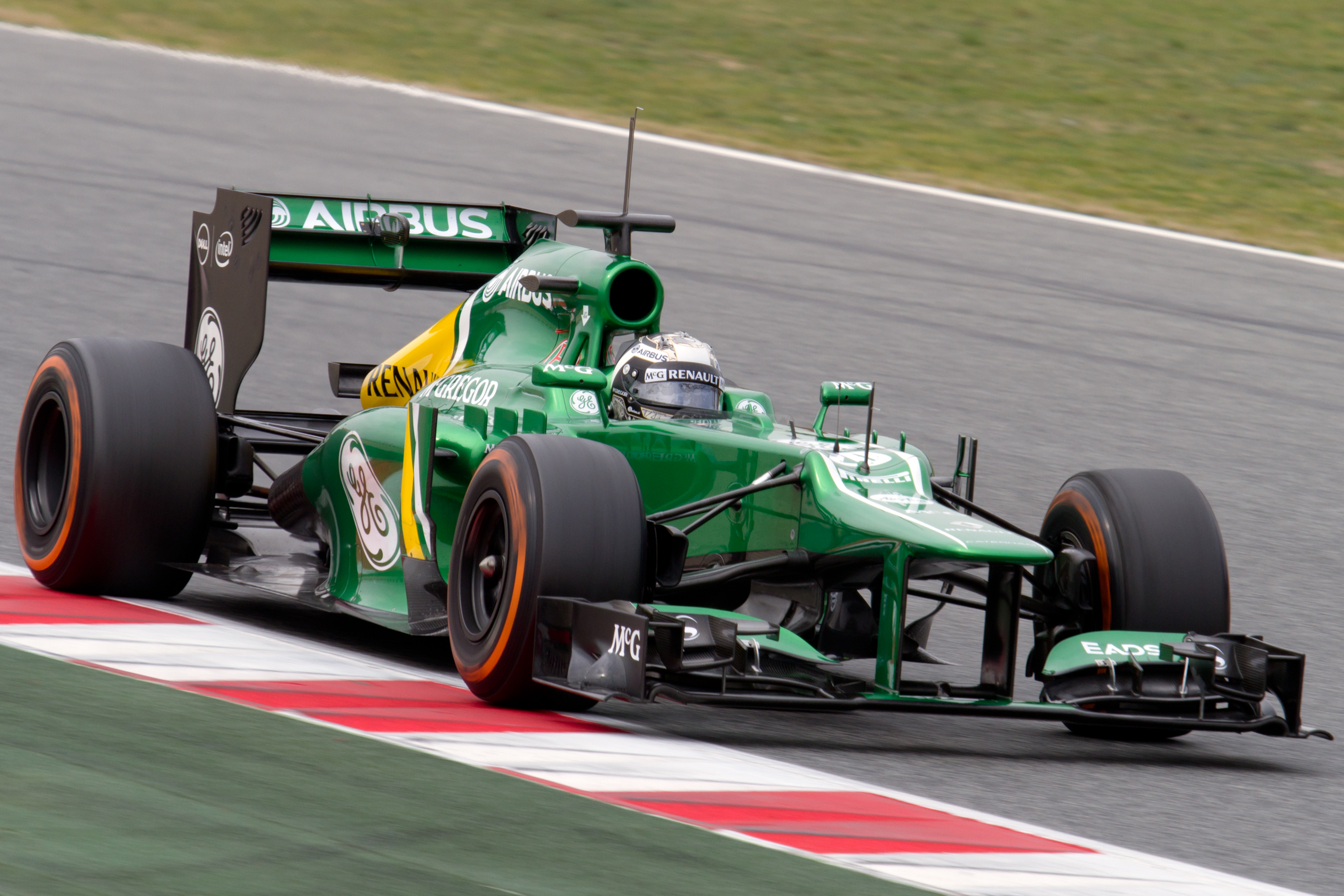 Formula One 2013 Catalonia test (19-22 February): Giedo van der Garde (Caterham)